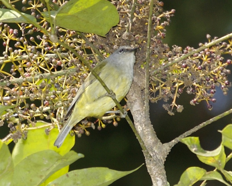 Javan Grey-throated White-eye Lophozosterops javanicus frontalis Cibodas, Java, Indonesia 27th. August 2006 Indonesian names: Burung kaca mata leher abu-abu, Opior-opior Distribution